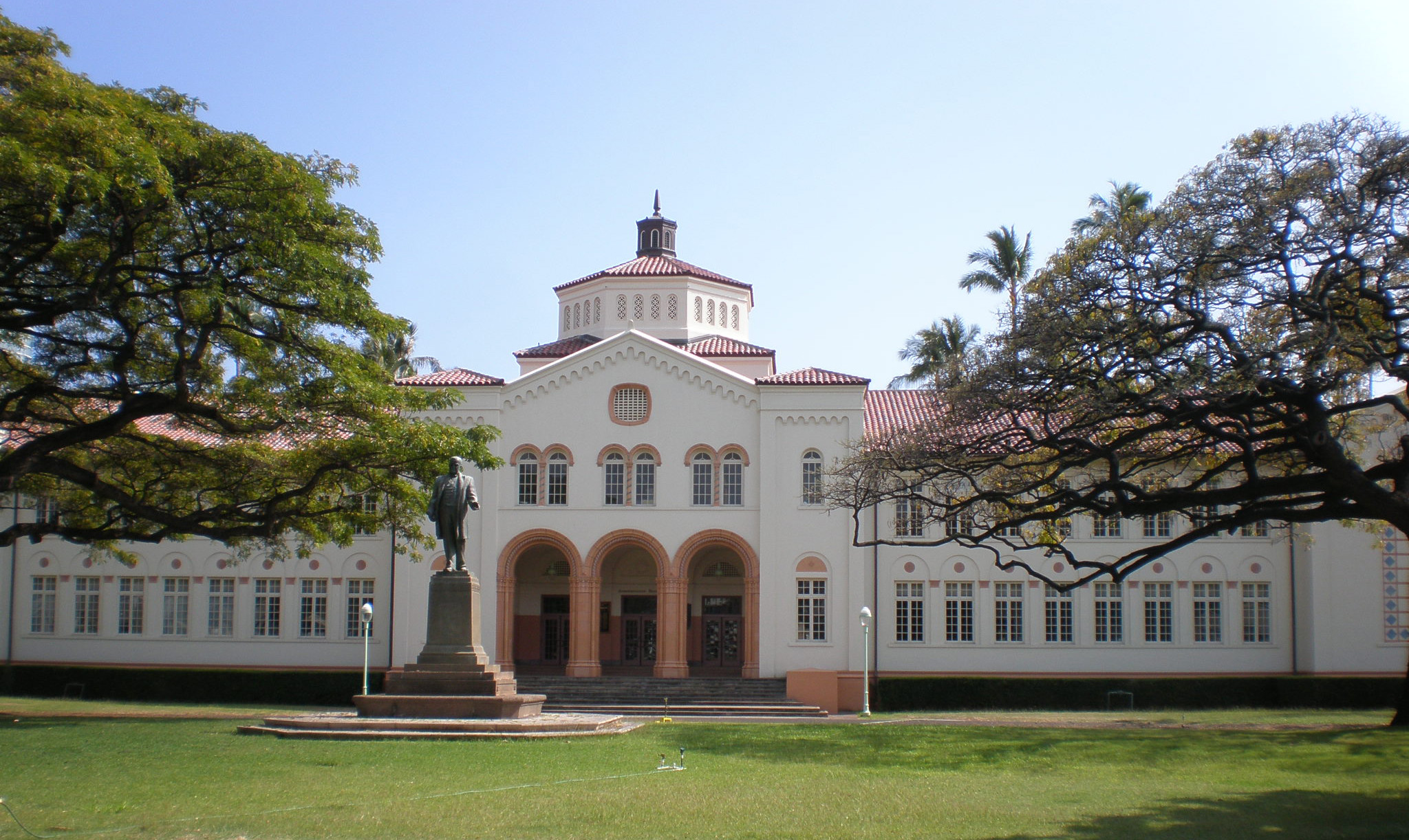 President William McKinley High School, Honolulu, Hawaii, on National Register of Historic Places